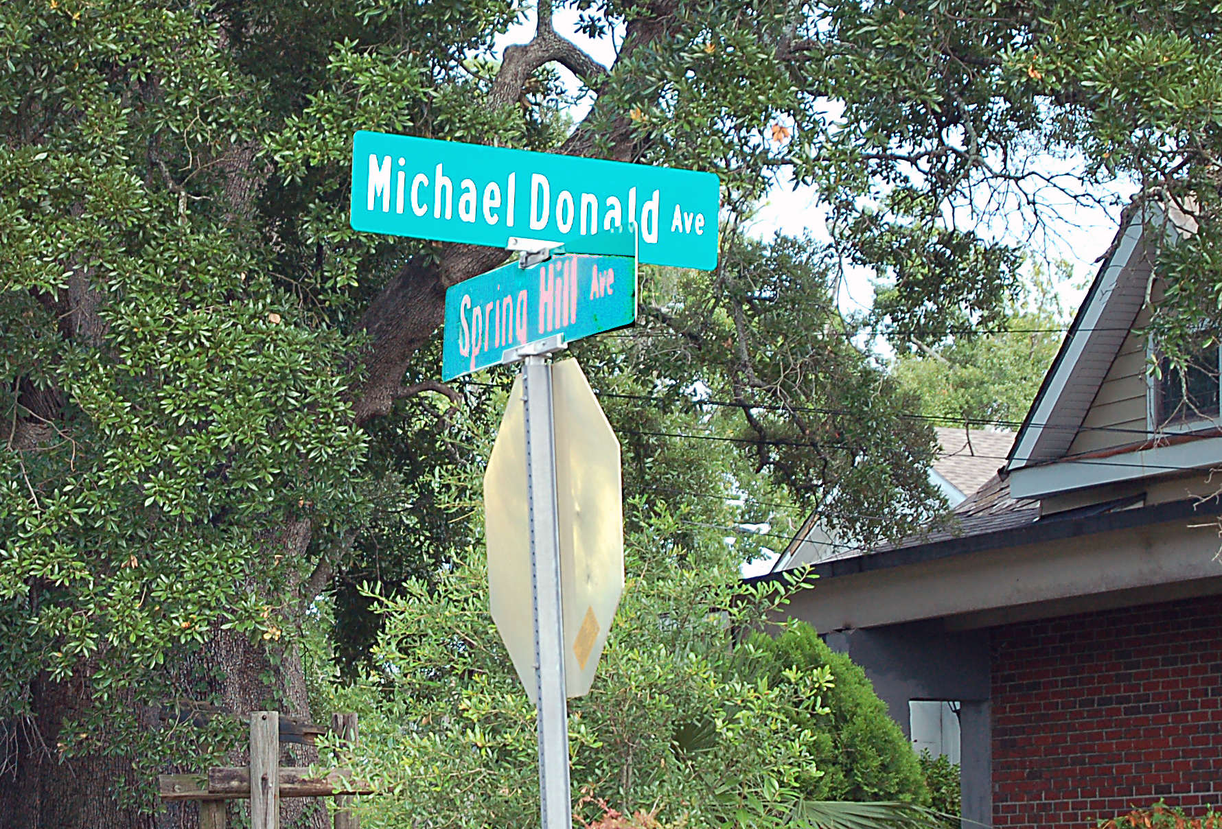 Michael Donald avenue in Mobile, Alabama, street sign #2